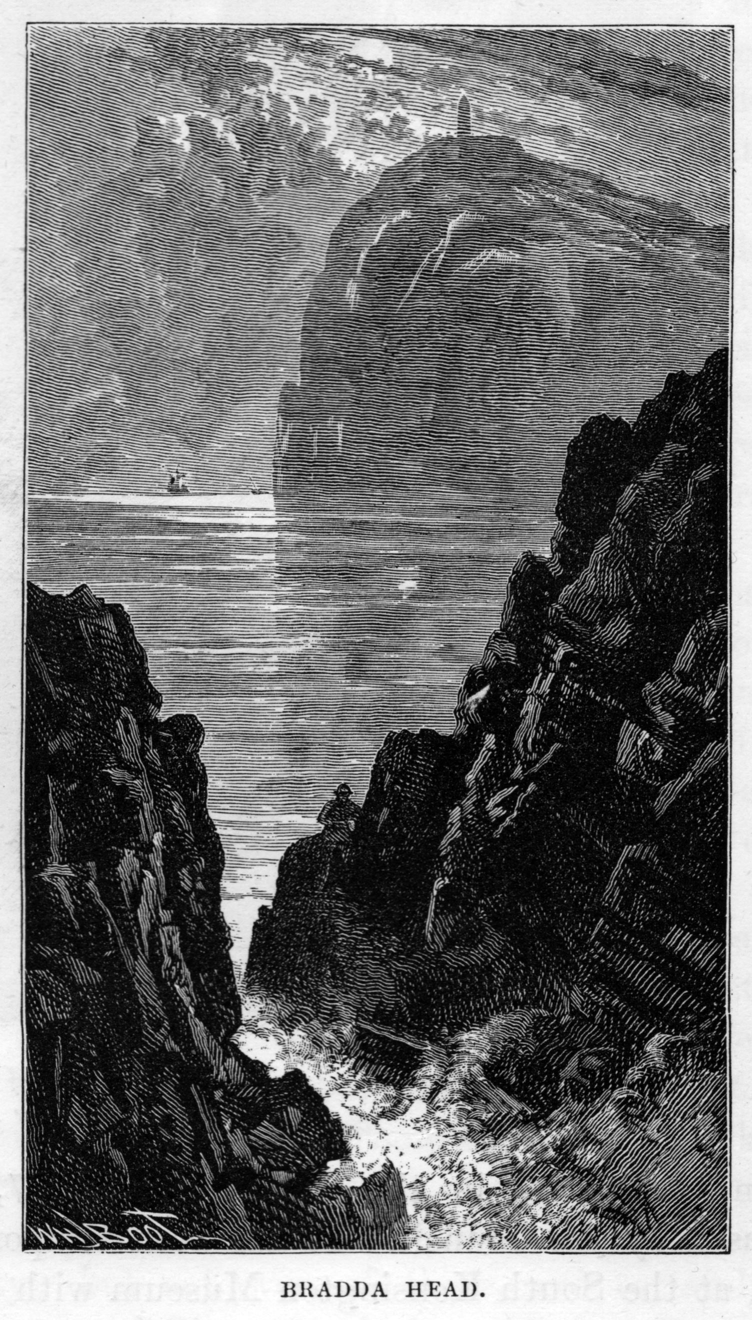 A Victorian engraving of Bradda Head, Isle of Man, British Isles.